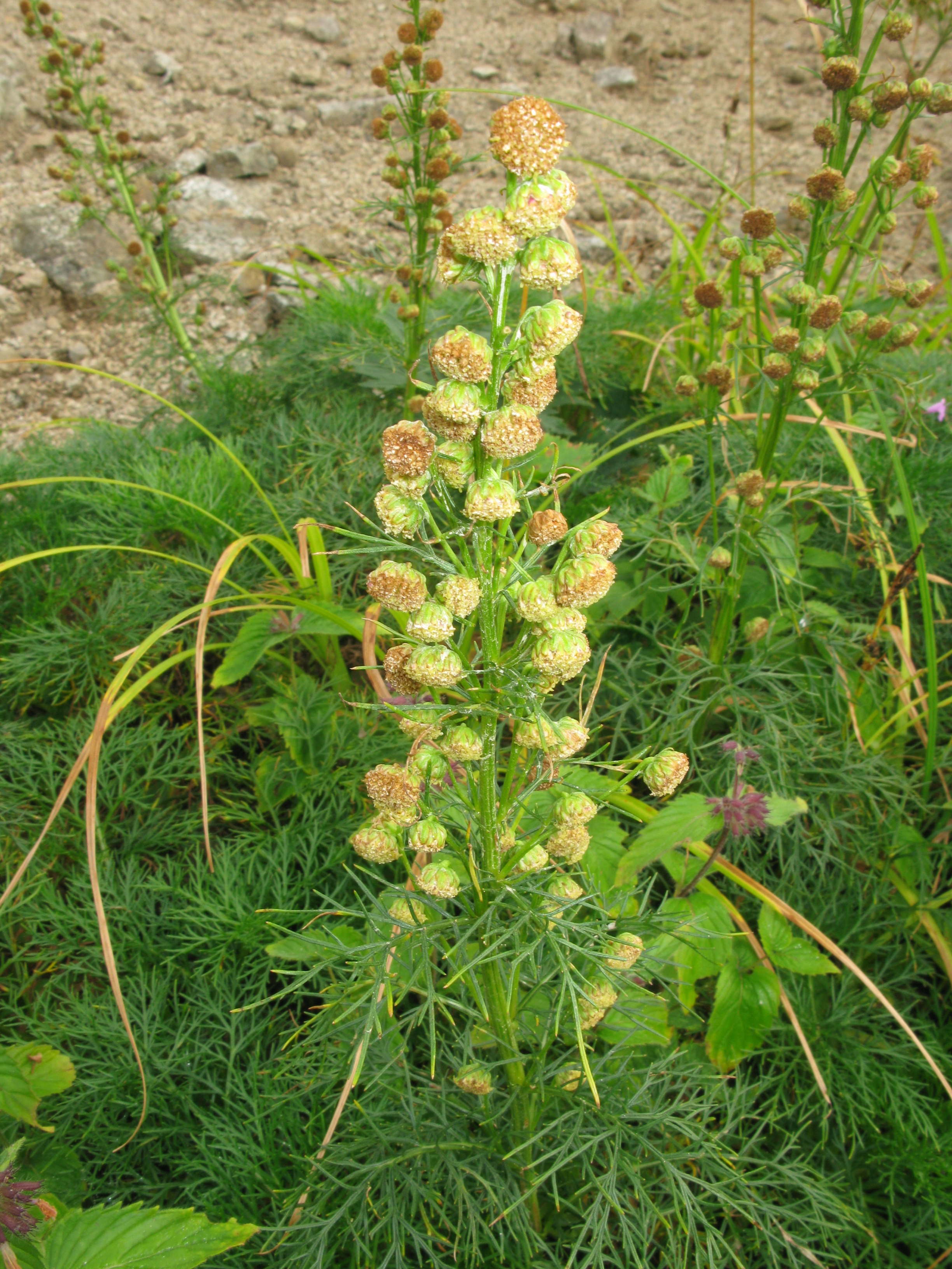 Artemisia sinanensis, Mt. Iidesan, Niigata pref., Japan